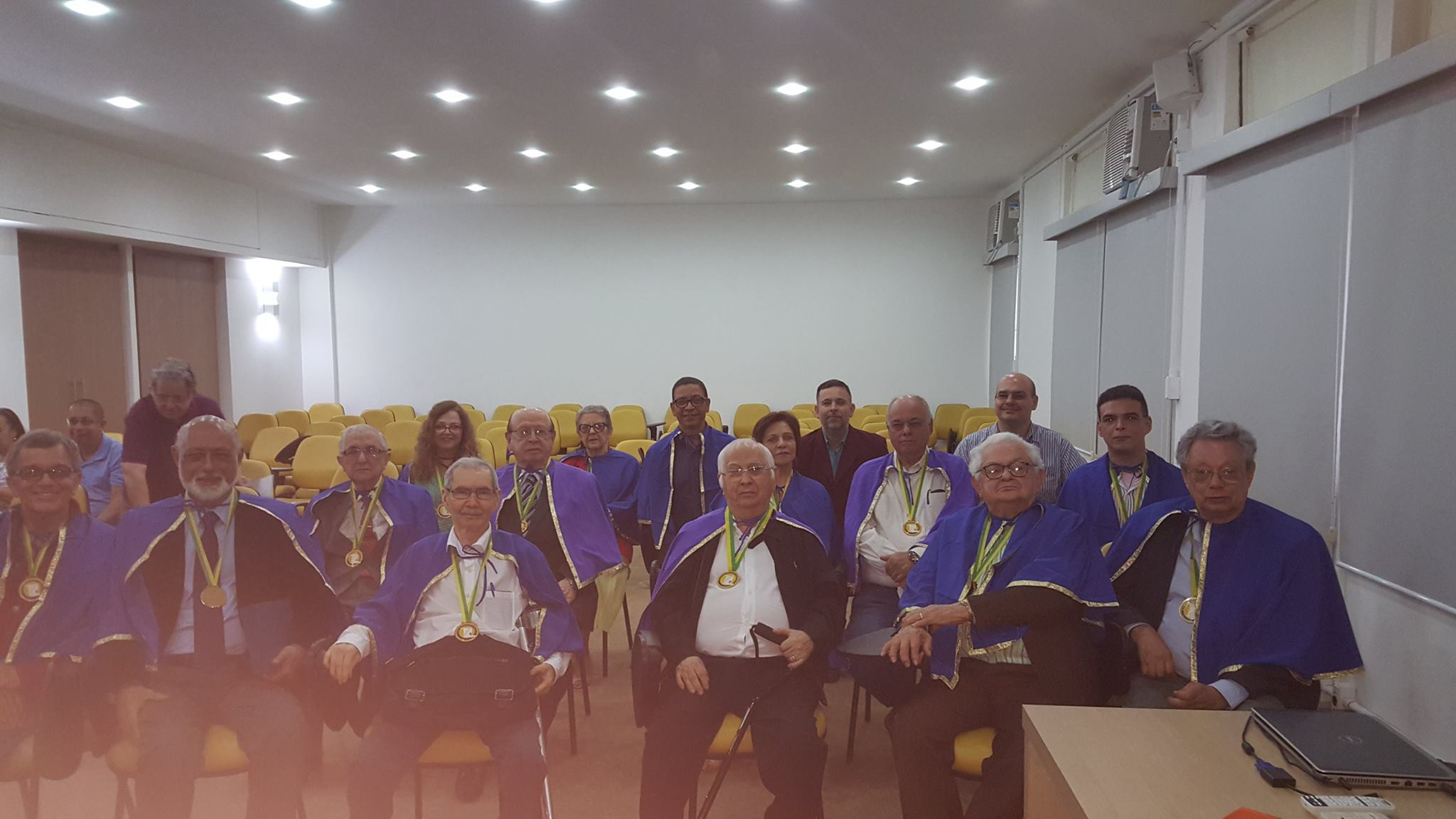 MARCELO MORAES CAETANO, ACADEMIA BRASILEIRA DE FILOLOGIA